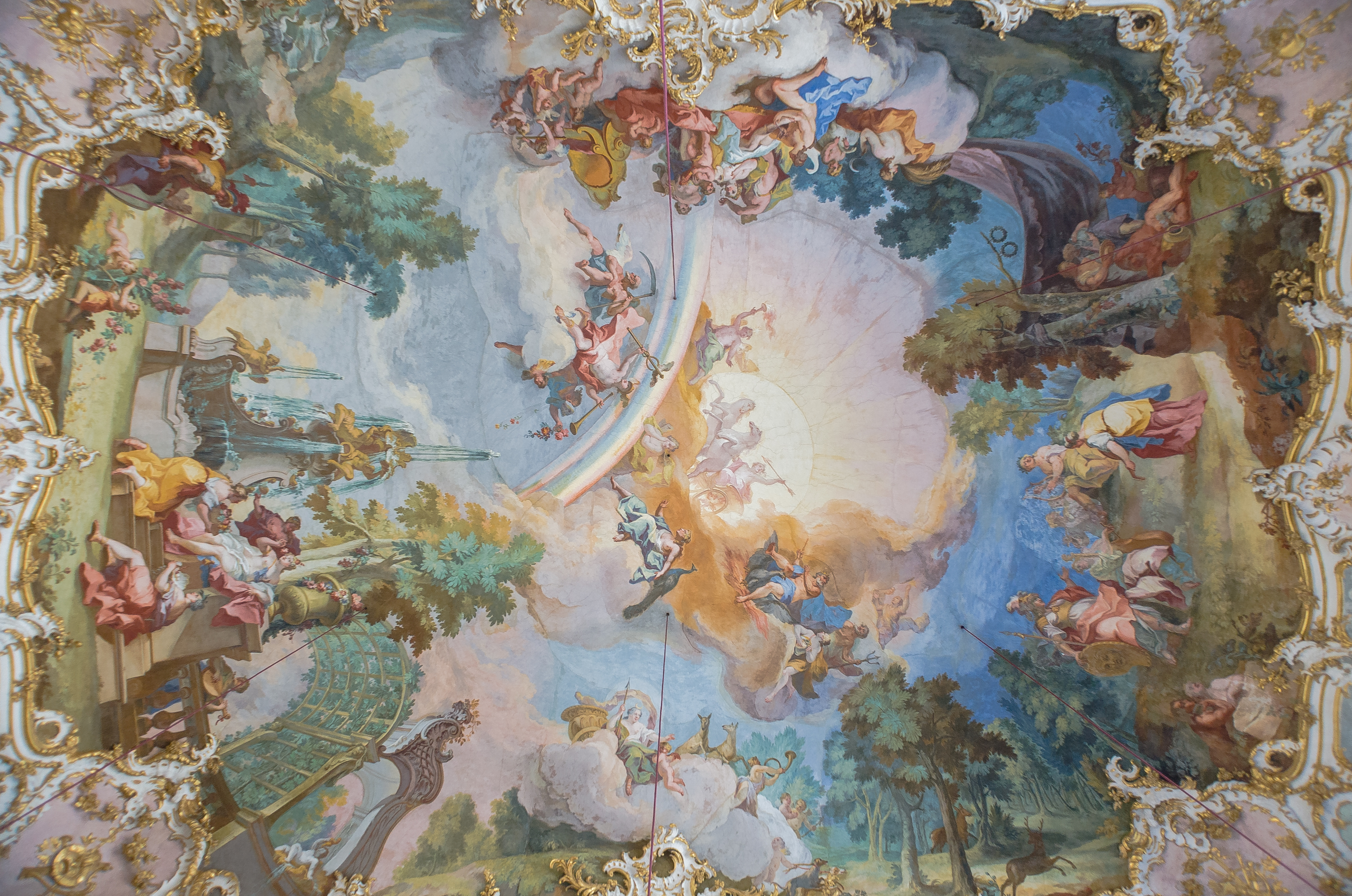 Steinerner Saal, Nymphenburg Palace, Munich, Germany